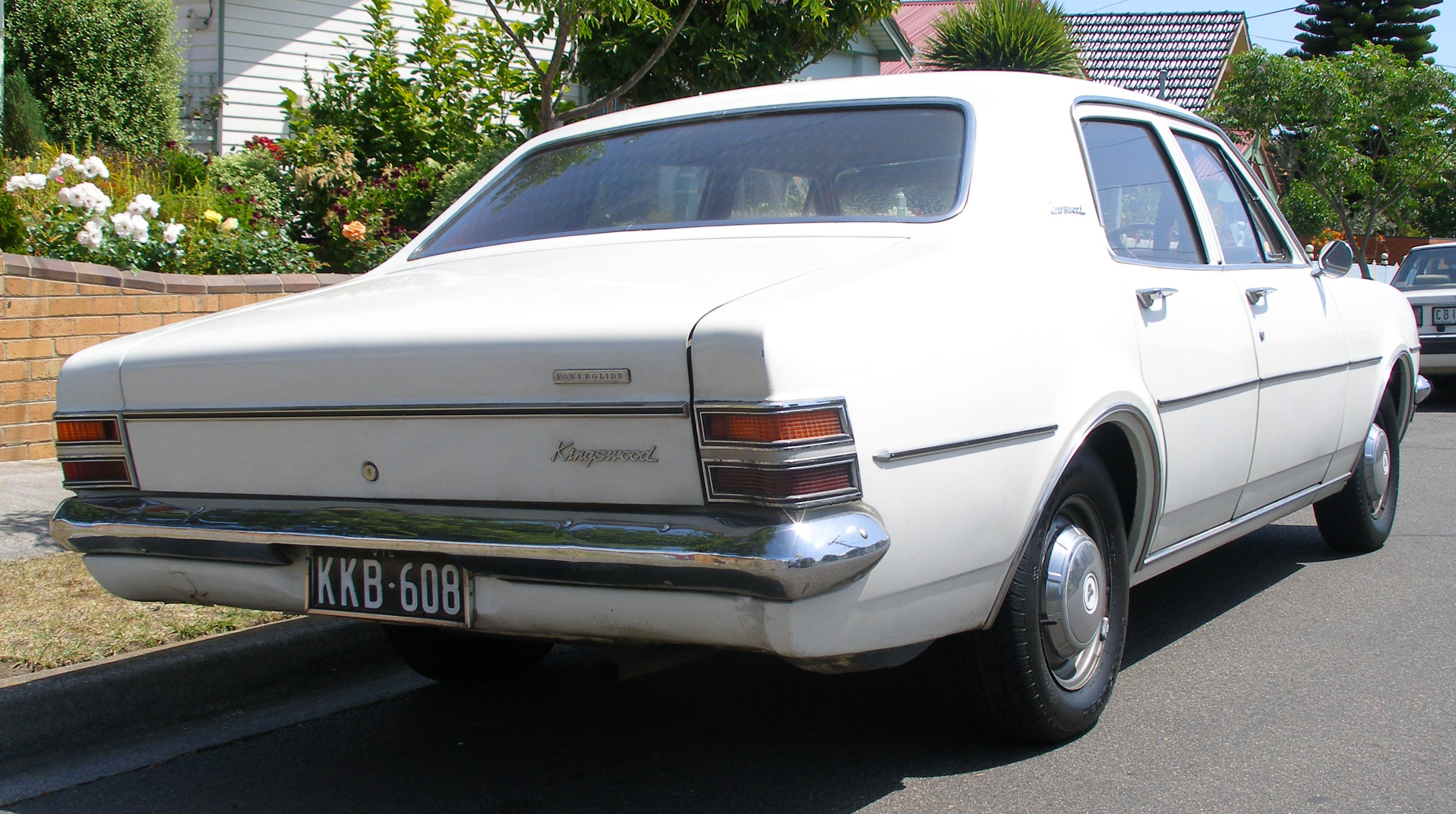 1969–1970 Holden HT Kingswood sedan, photographed in Victoria, Australia.